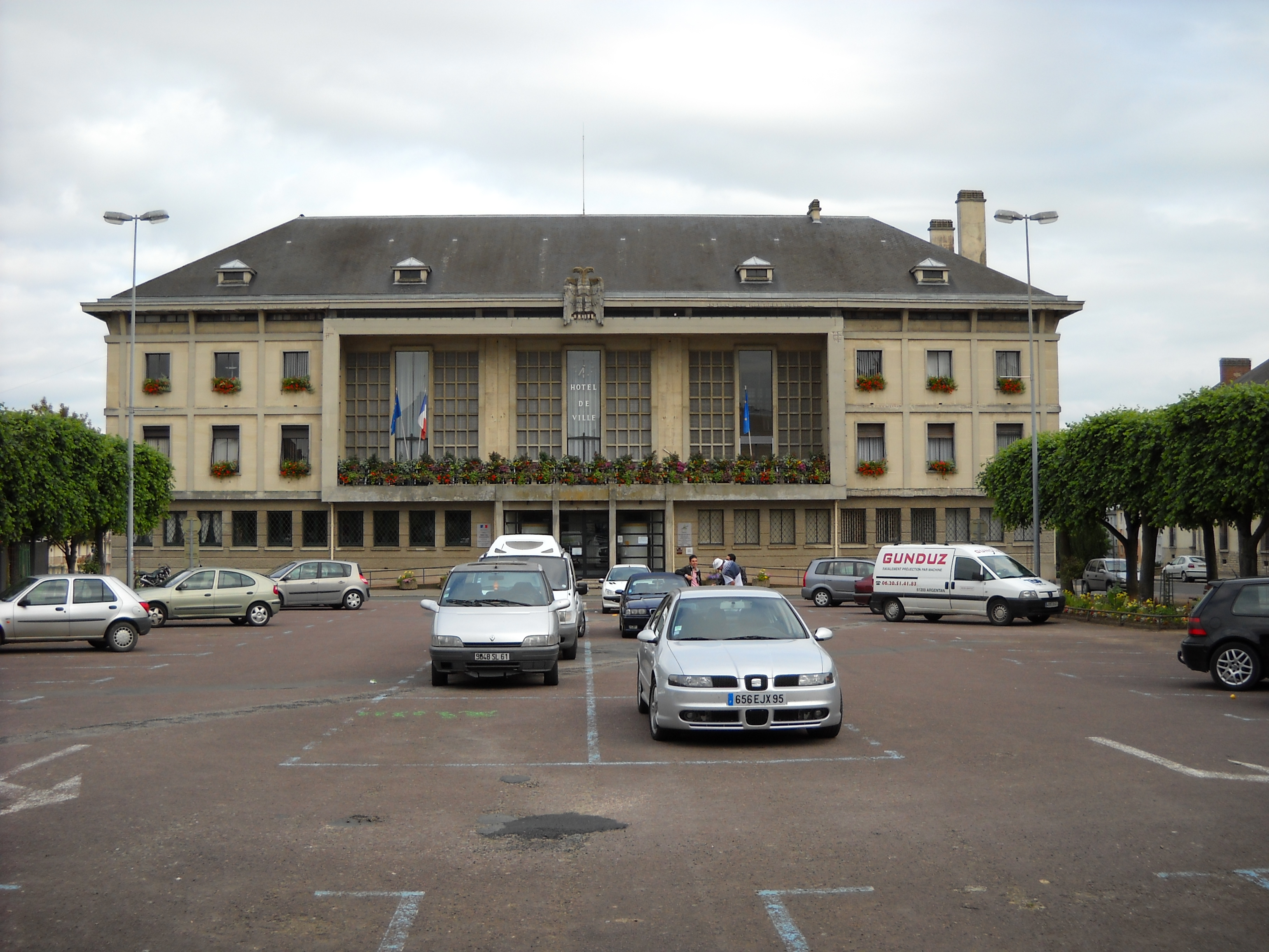 The town hall of Argentan, Orne, France.